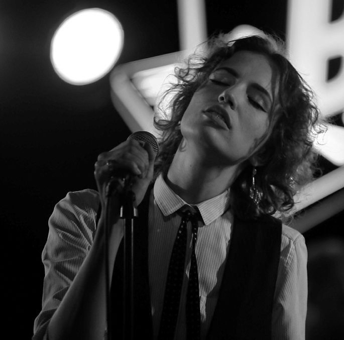 Performance photo of Finnish singer-songwriter Janita.